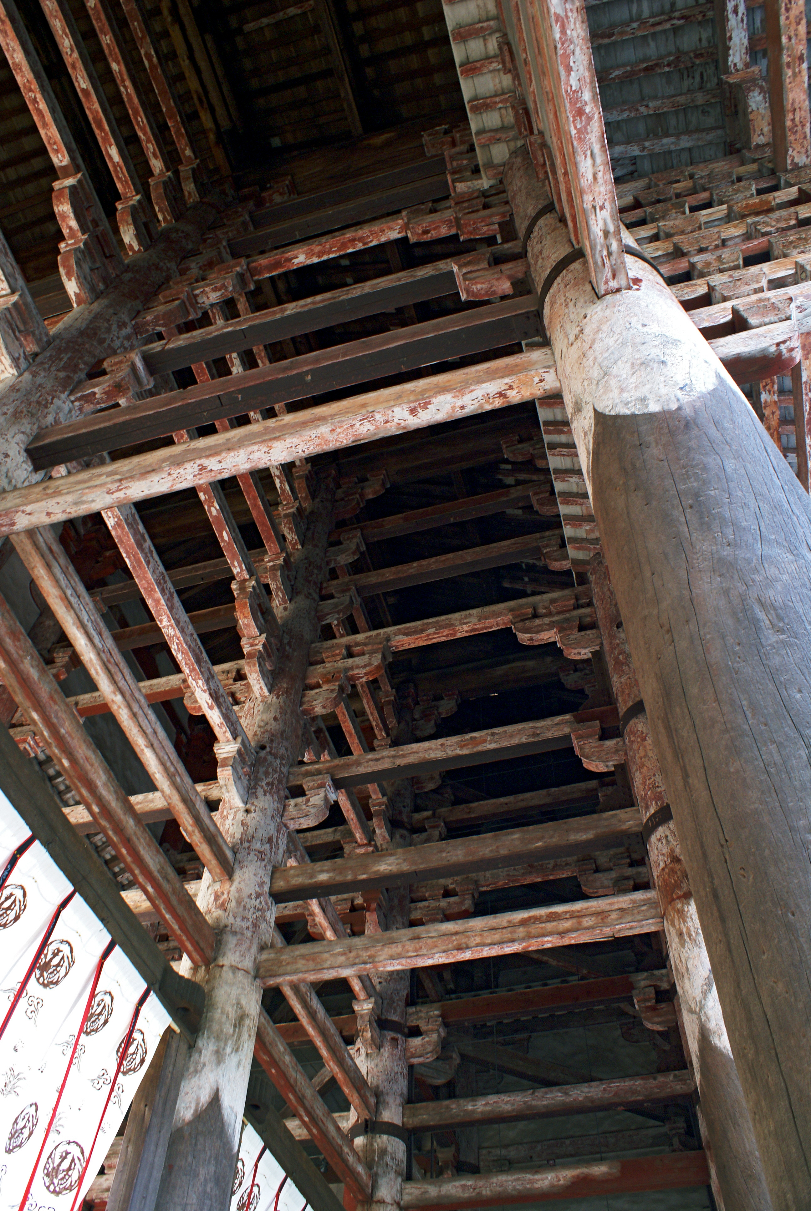 Nandaimon of Tōdai-ji in Nara, Nara prefecture, Japan